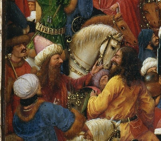 Detail of the figures in the lower ground of the crucifixion panel